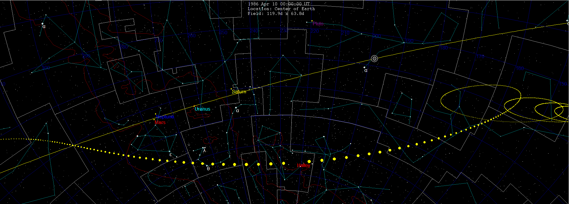 Halley's comet path in sky as viewed from earth, with hourly motion shown